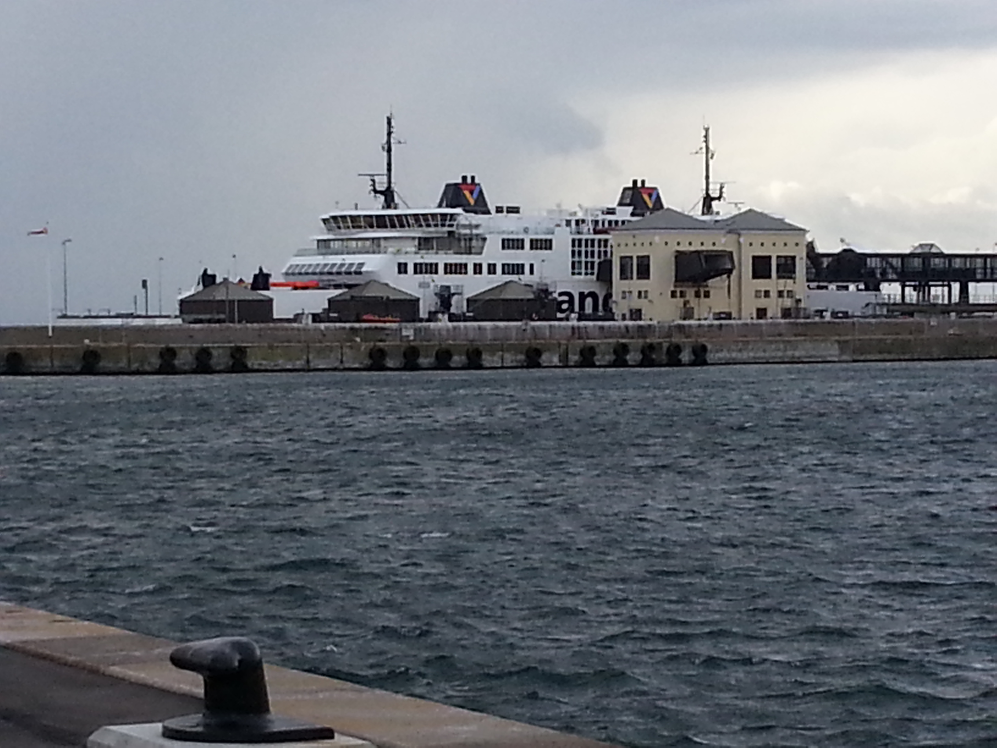 Elsinore Harbour, ferry terminal 1